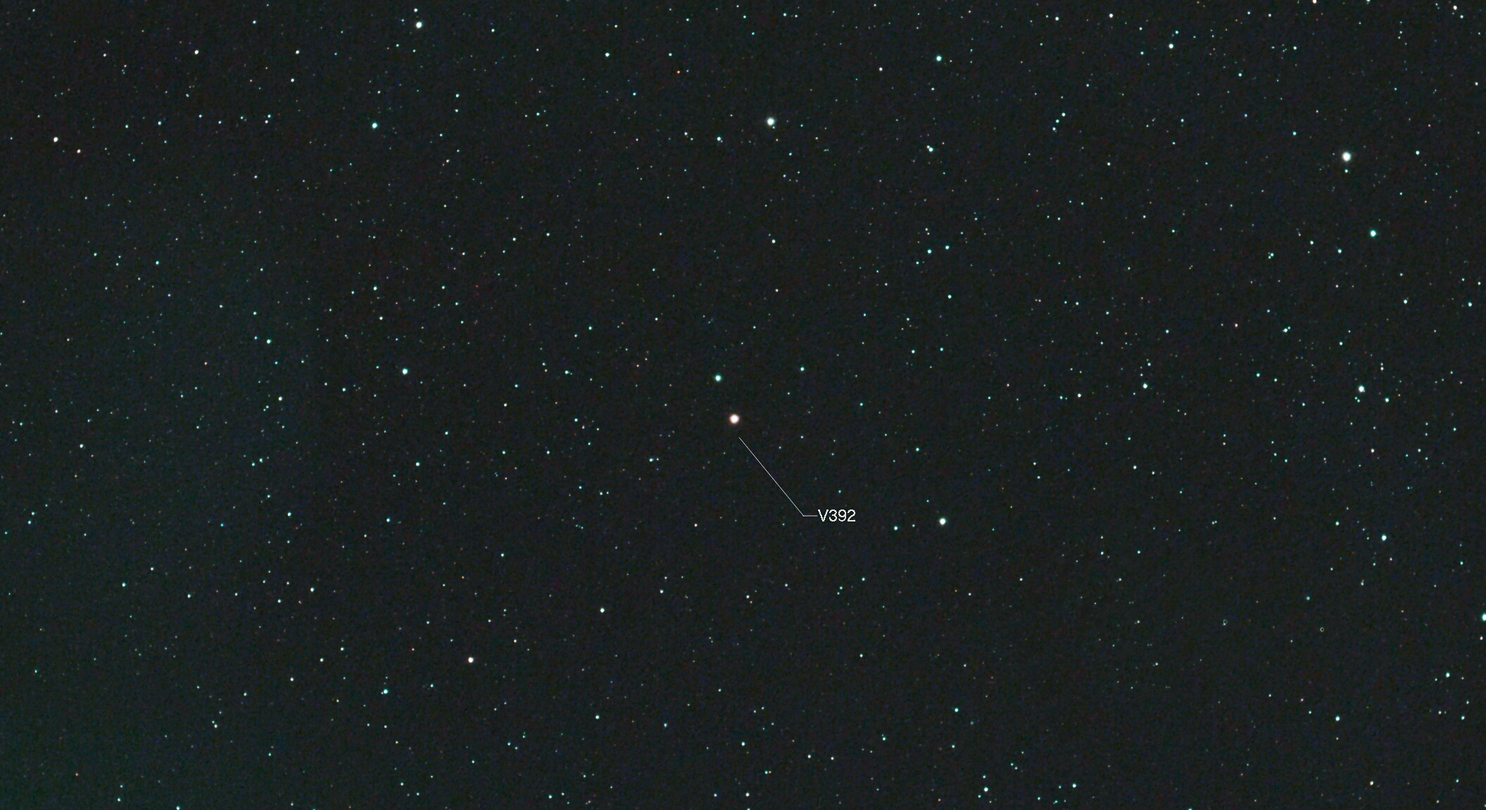 Nova Persei 2018 . Taken with skywatcher ed80 ds pro with a 0.8x reducer. f/6 And canon 200d at iso800. 60x45s exposures